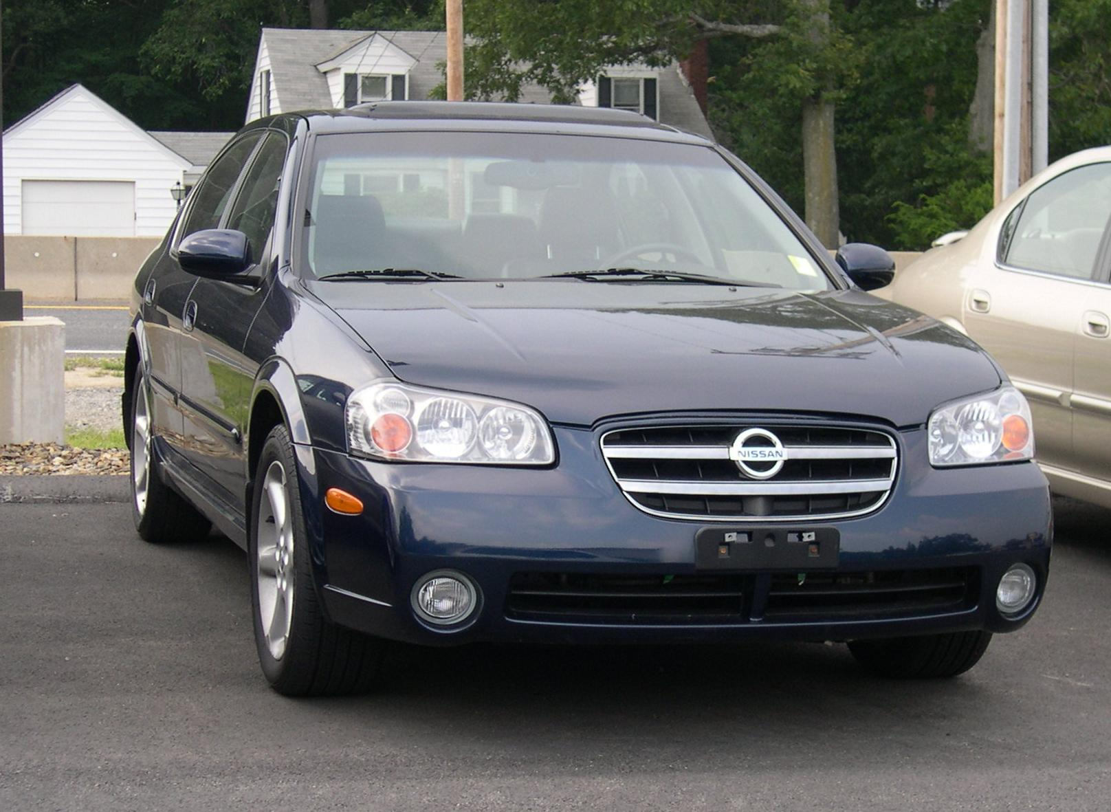 2003 Nissan Maxima Source: Photo by User:Sfoskett